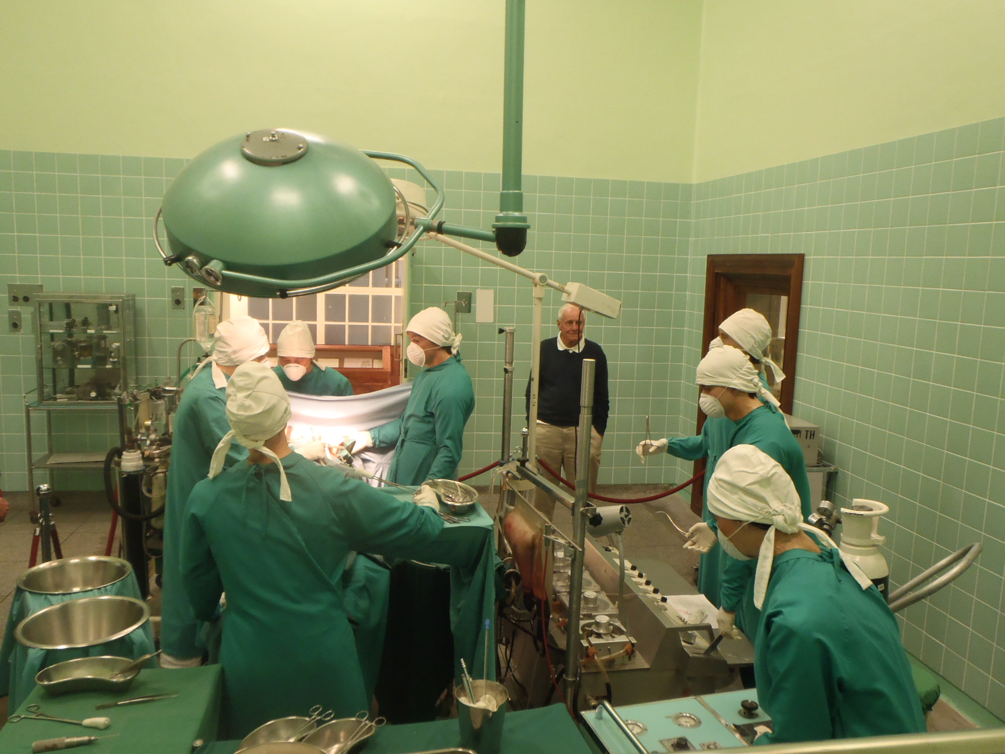 The restored scene from Dr Barnard's first human heart transplantation - world's most famous heart of young donor Denise Duval just died....